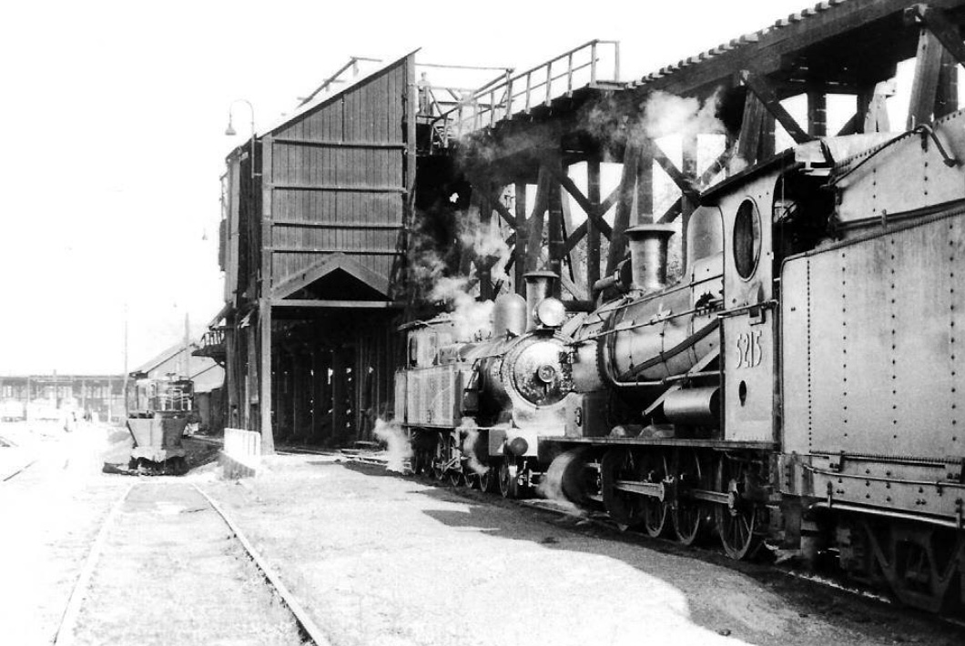 Thirroul Locomotive Depot showing the elevated coal stage (now demolished)